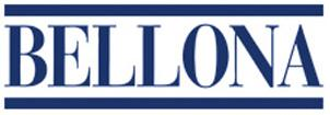 Bellona